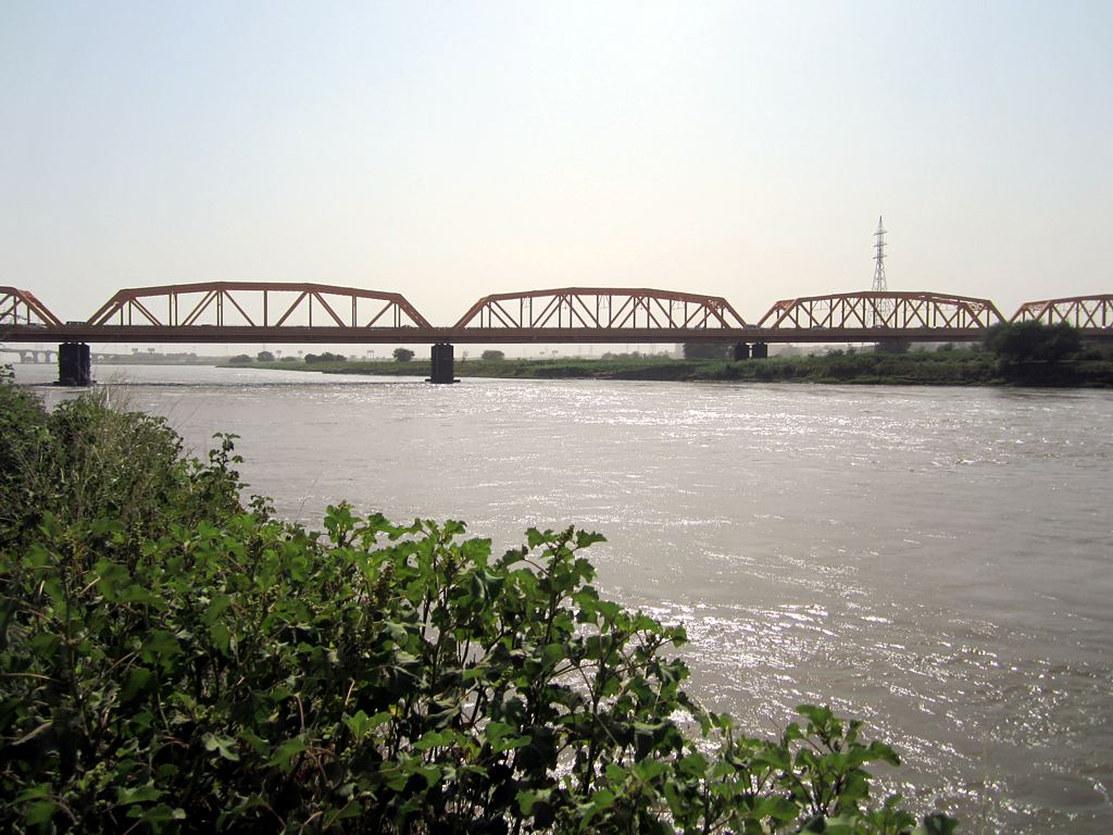 The White Nile Bridge crosses the river from Omdurman to Khartoum, Sudan. Photography from the bridge itself is strictly prohibited.